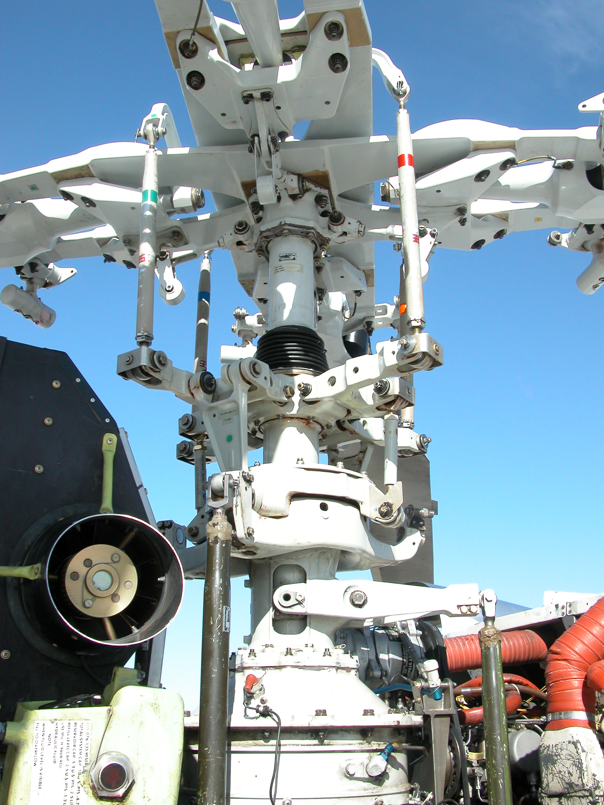 Transmission and rotorhead from a Bell 412